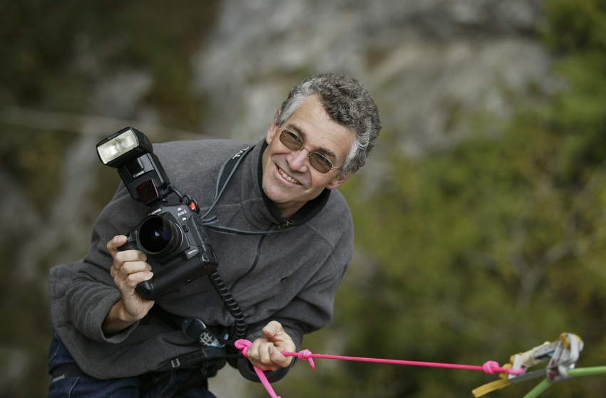 Swiss Climber Martin Scheel